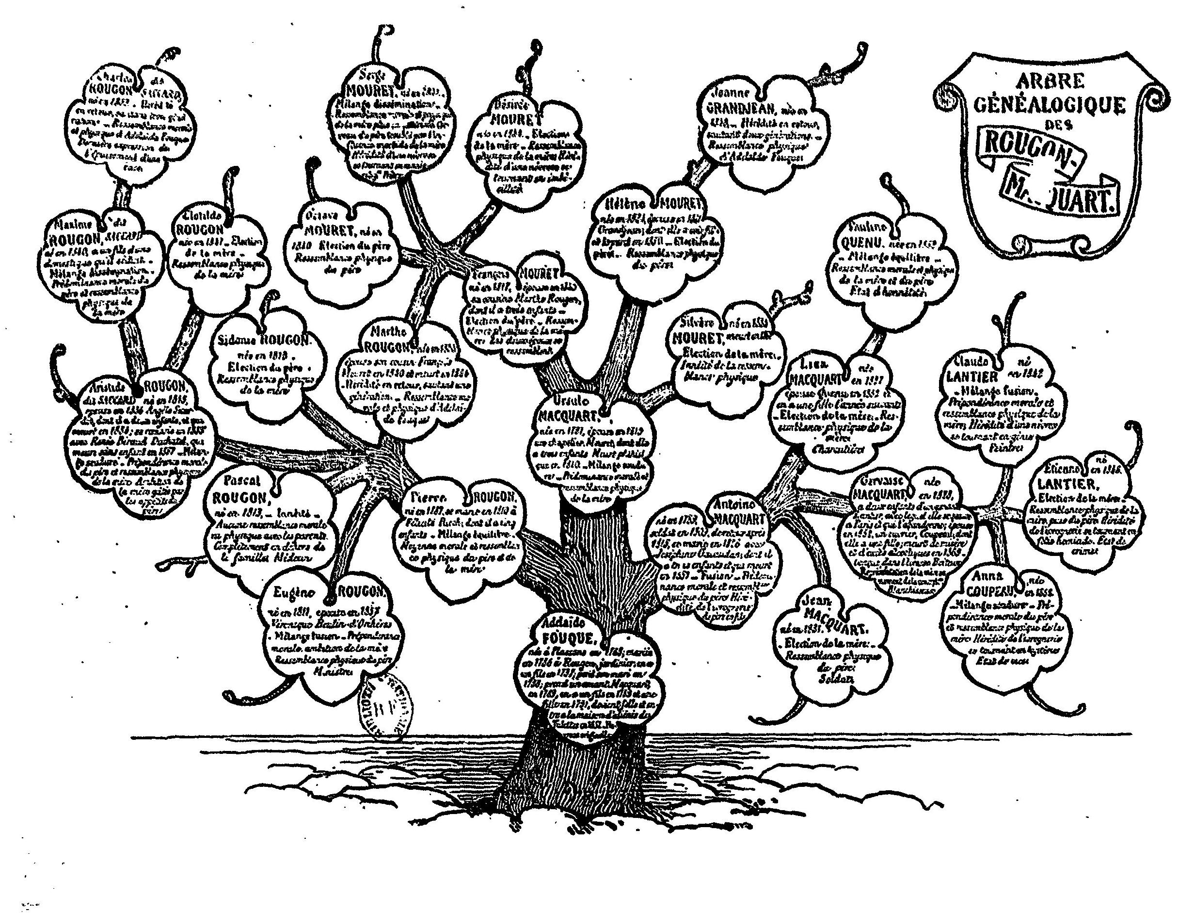 Rougon-Macquart's family tree. The Rougon-Macquart is a fictional family, living in the French Second Empire (1851-1870) and imagined by Emile Zola for his 20-books cycle Les Rougon-Macquart.